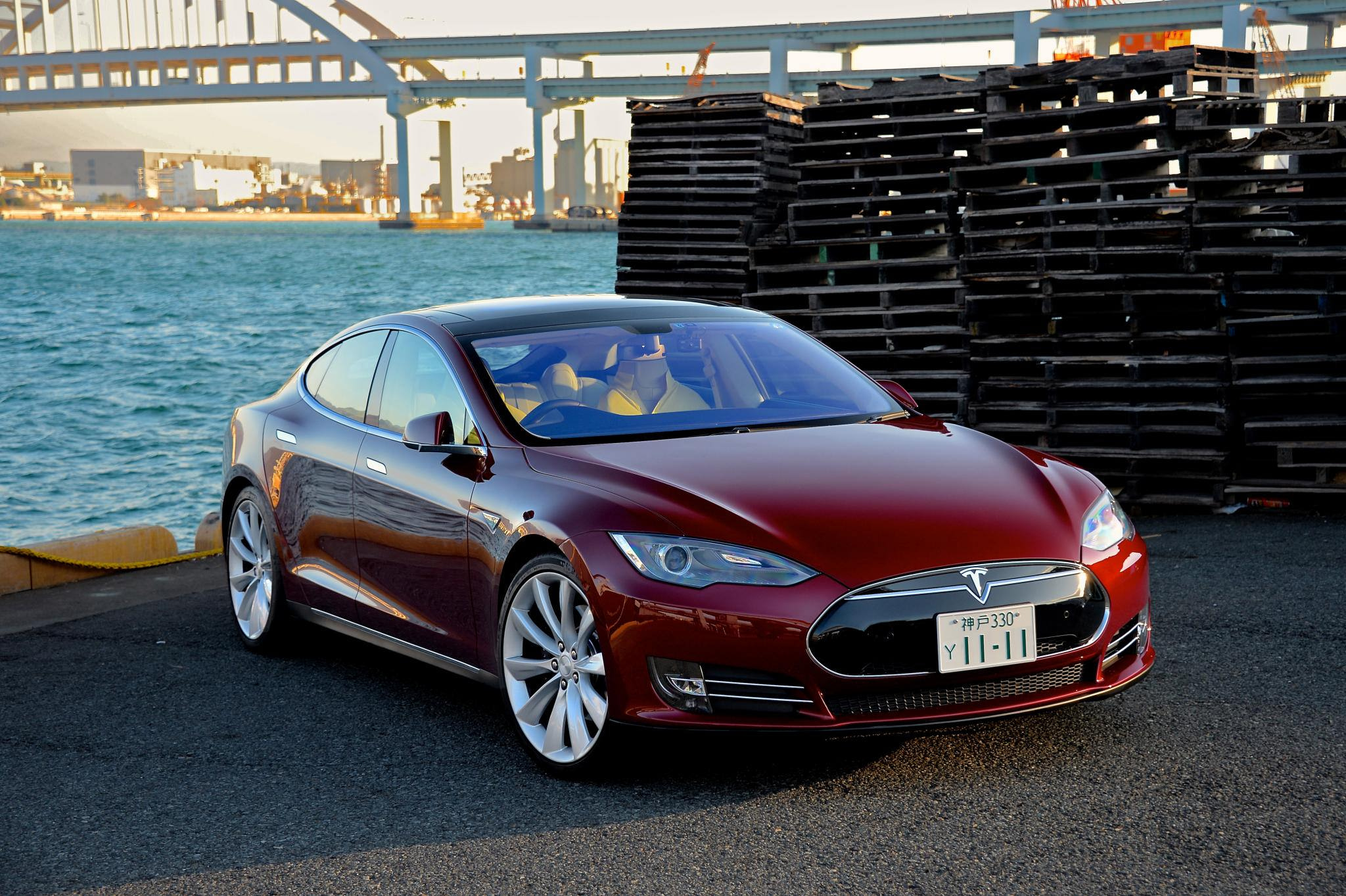 Tesla Model S Signature Edition in Kobe, Japan